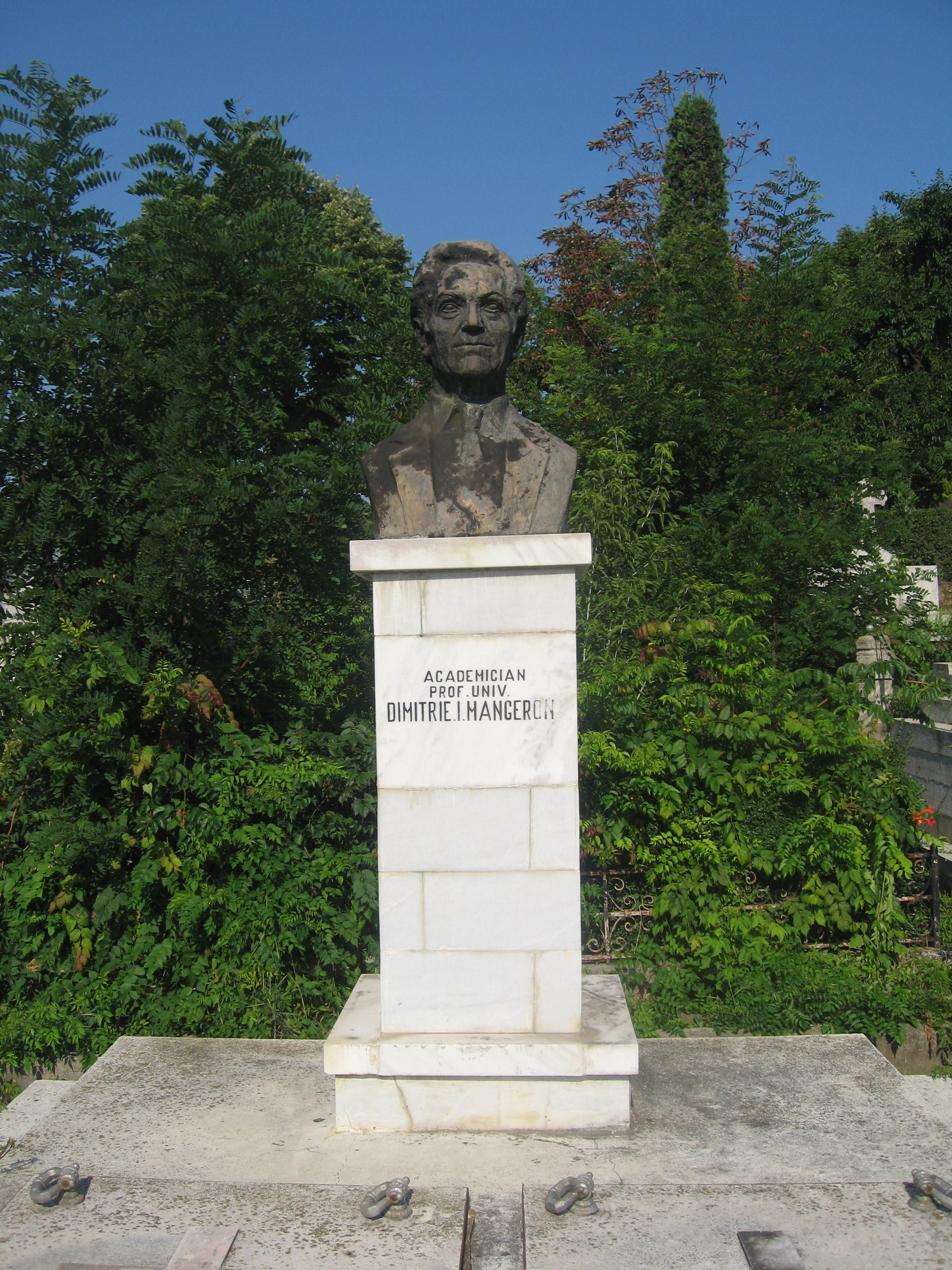 Dimitrie Mangeron